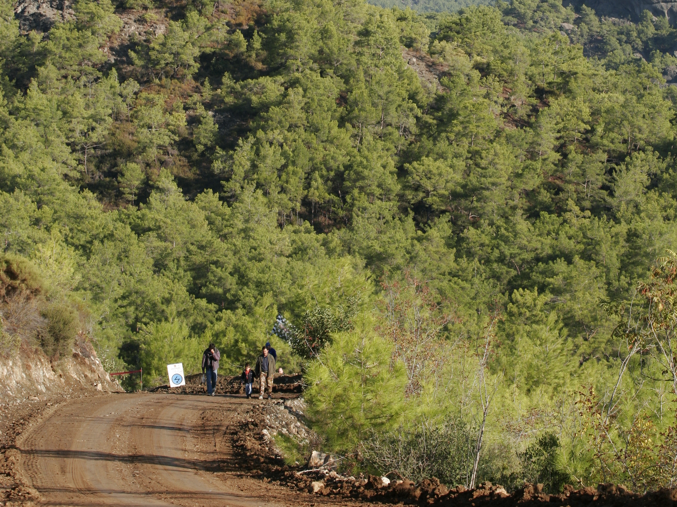 Superspecial stage Tekirova. Rally of Turkey 2006.